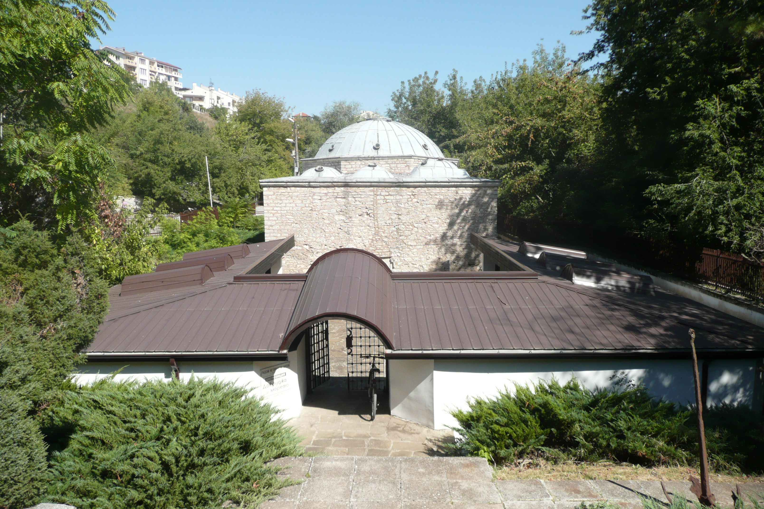 The recently renovated Turkish bath in Kavarna, Bulgaria